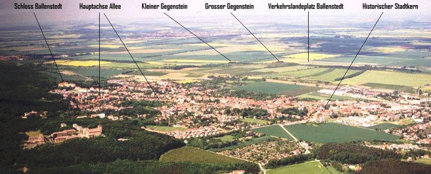 Luftaufnahme Ballenstedt, own work, May 2001, Lange